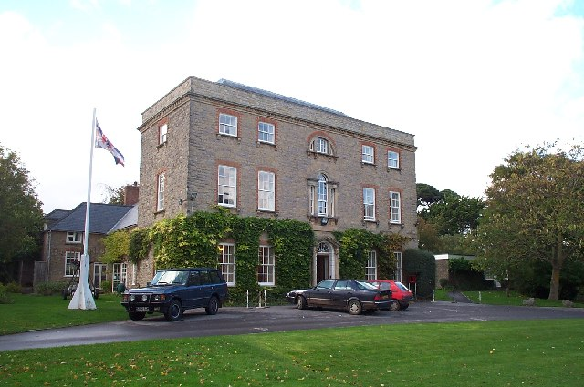 Kilve Court. This residential education centre is owned by Somerset Council Council